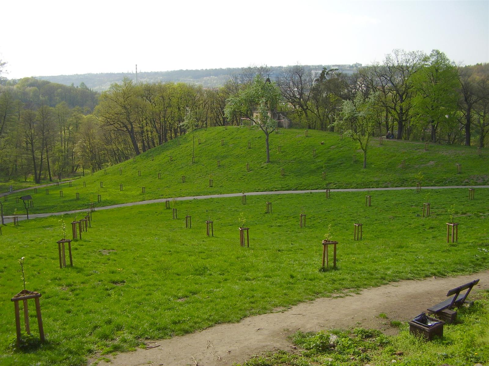 View at Cibulka in Prague